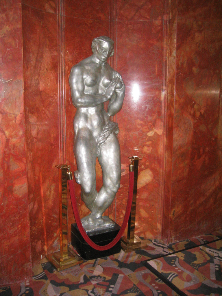 Art-deco statue Eve by Gwen Lux, in the lobby of Radio City Music Hall, Manhattan, New York City